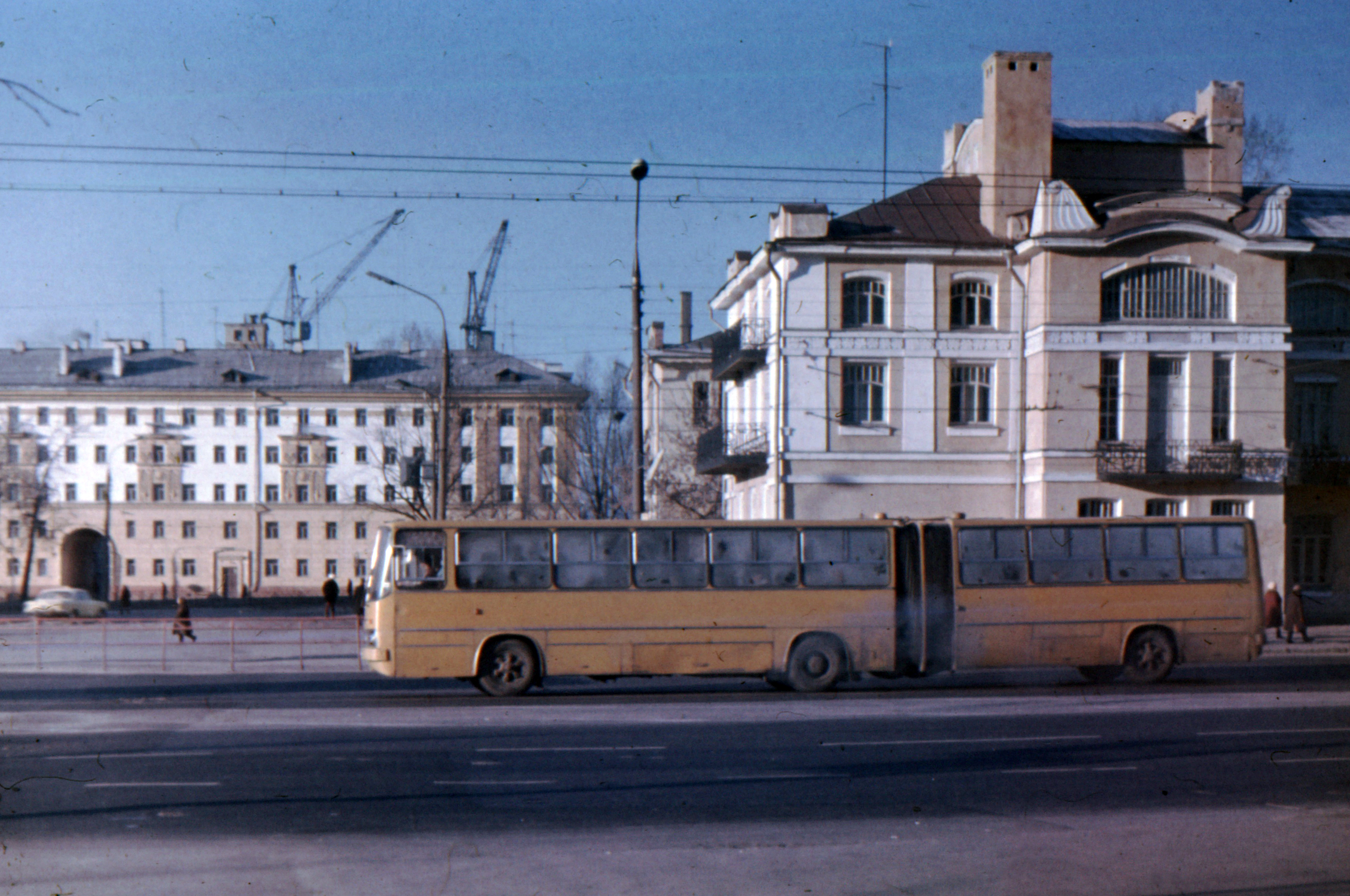 Gorky City (now Nizhny Novgorod). Ikarus-280 bus in Sormovo